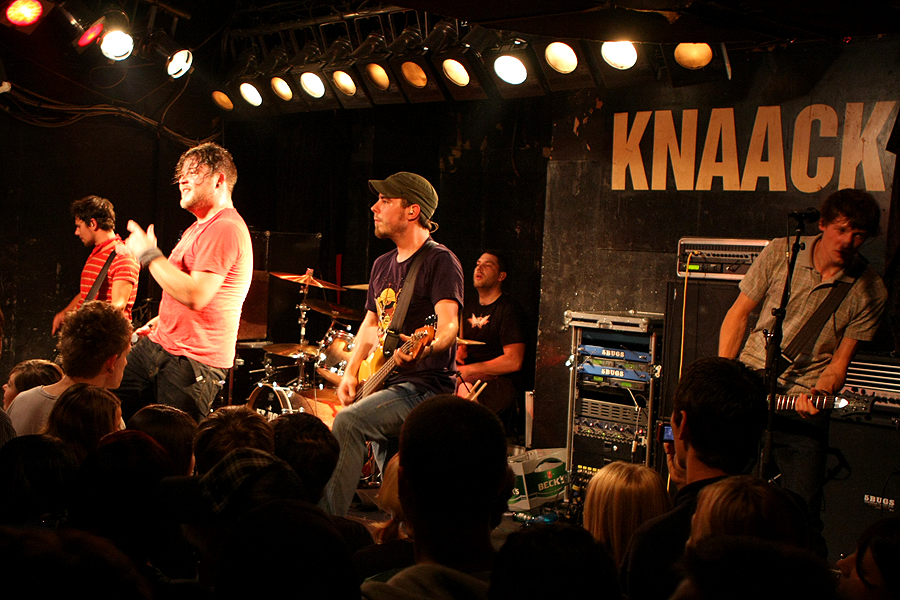 The rock band 5BUGS playing a concert on September, 19th 2008 in the "Knaack" club Berlin.